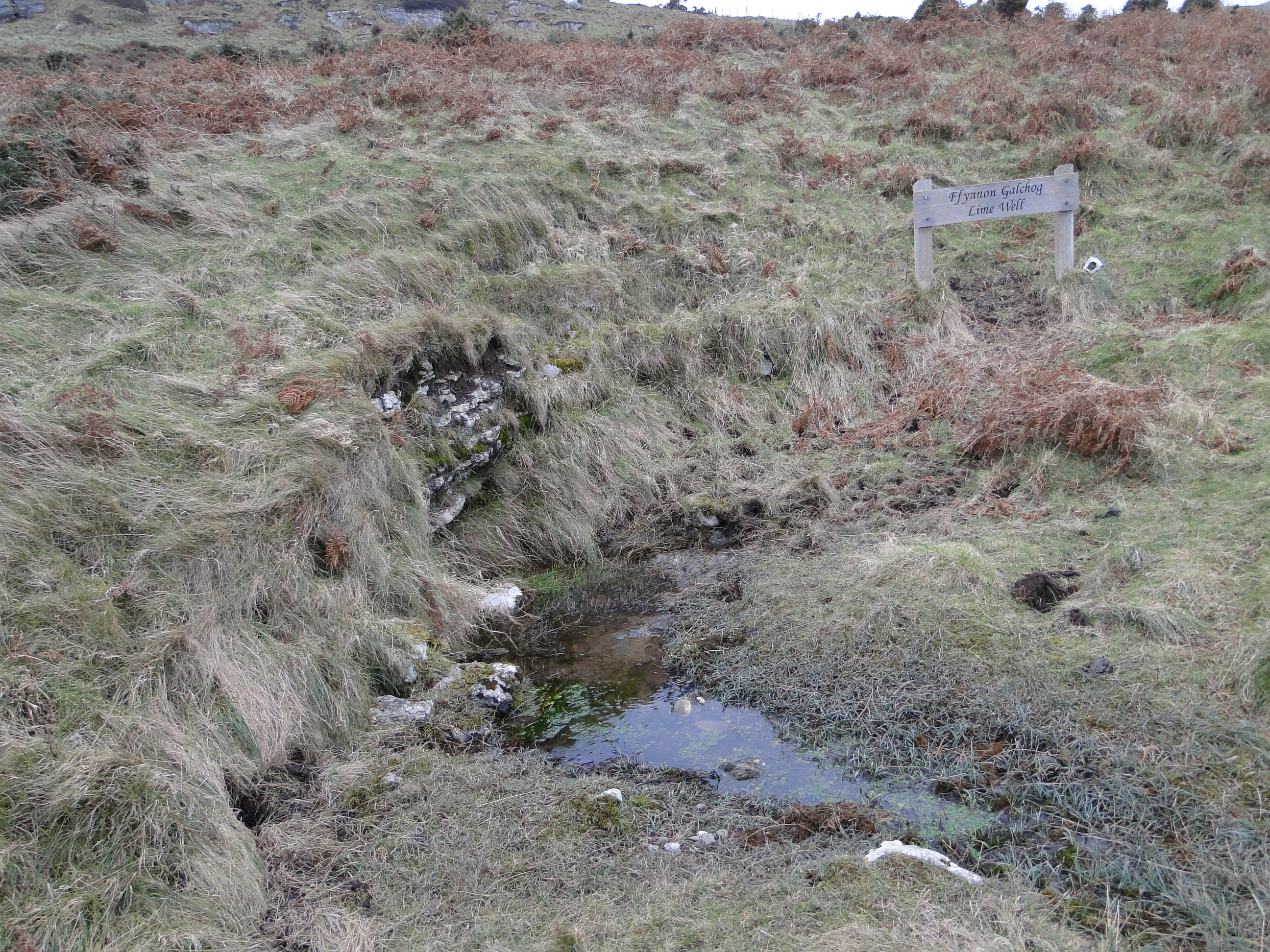 Ffynnon Galchog, one of the many wells on Llandudno's Grat Orme